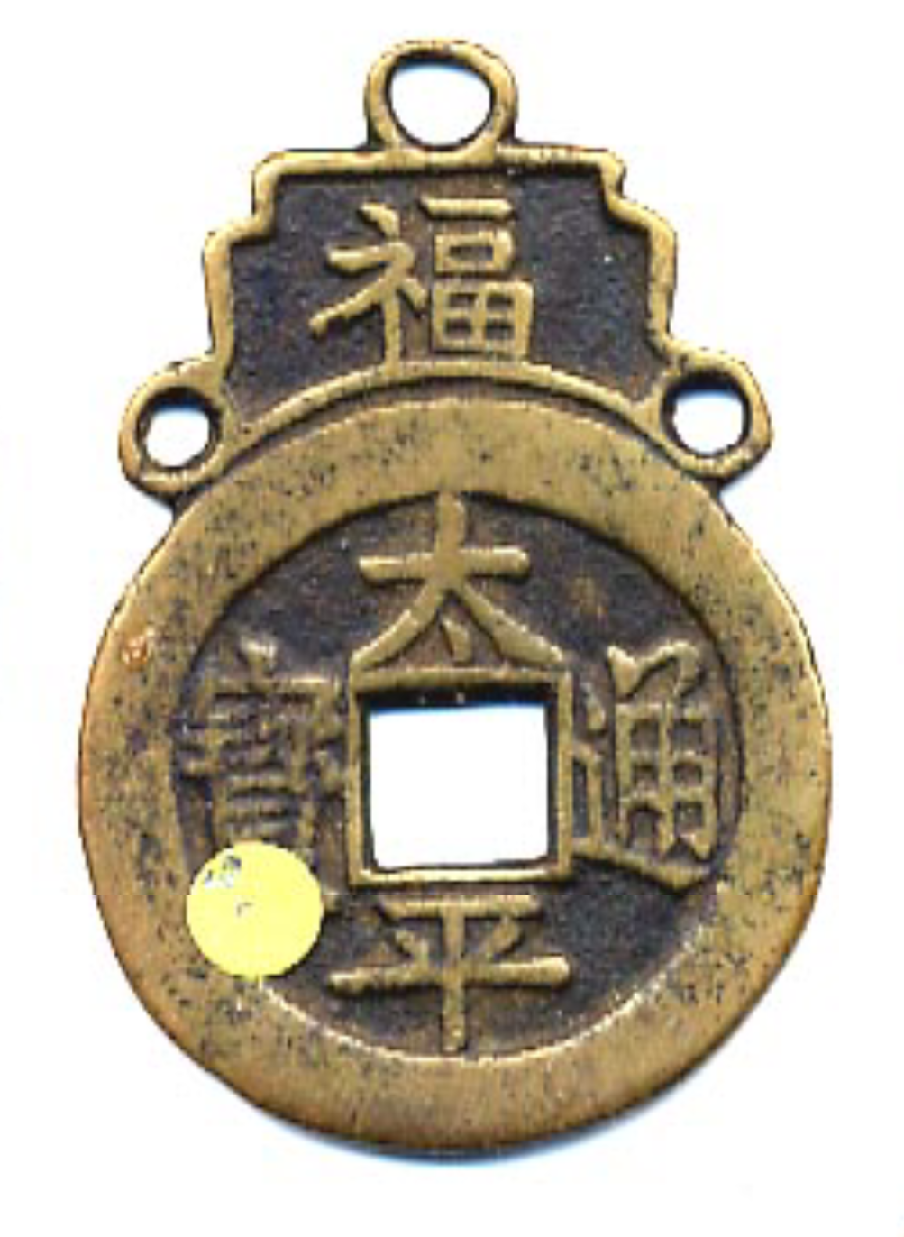 A gourd-shaped (calabash-shaped) Chinese numismatic charm with the Chinese (Hanzi) character fú meaning "Good luck 🍀" on top.